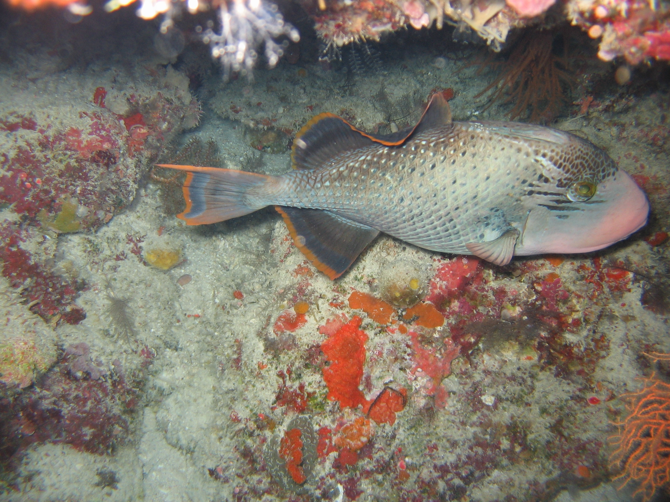 Yellowmargin triggerfish (Pseudobalistes flavimarginatus). Philippine Islands, Occidental Mindoro, Apo Reef.